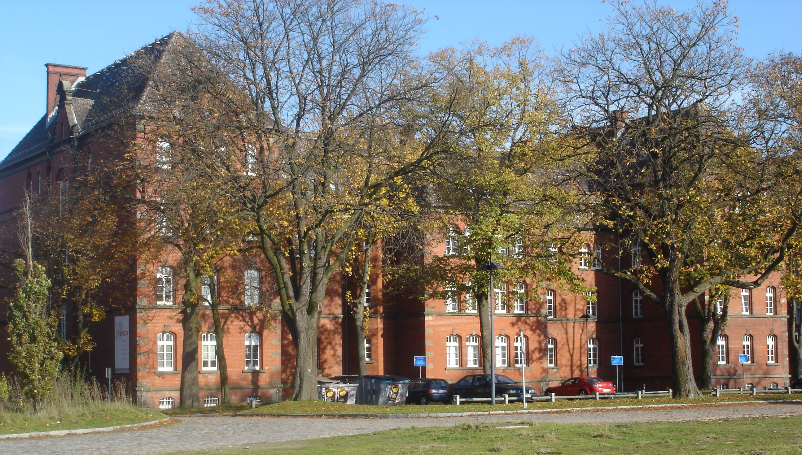 Leonardo-Campus in Muenster (Westphalia), Germany (Information Systems-building)